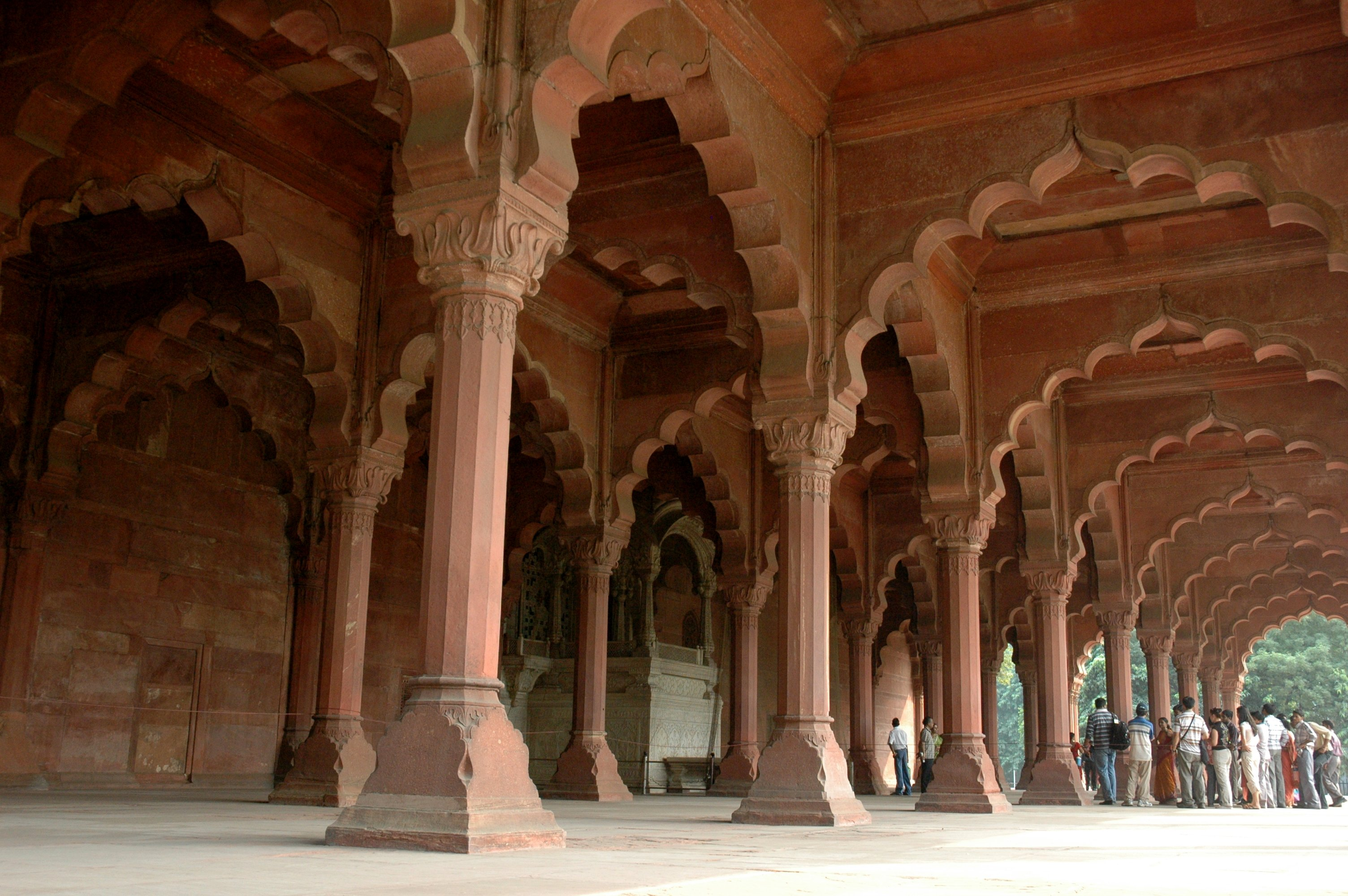 Inside the Diwan-i-Am (Hall of Public Audiences), Red Fort.